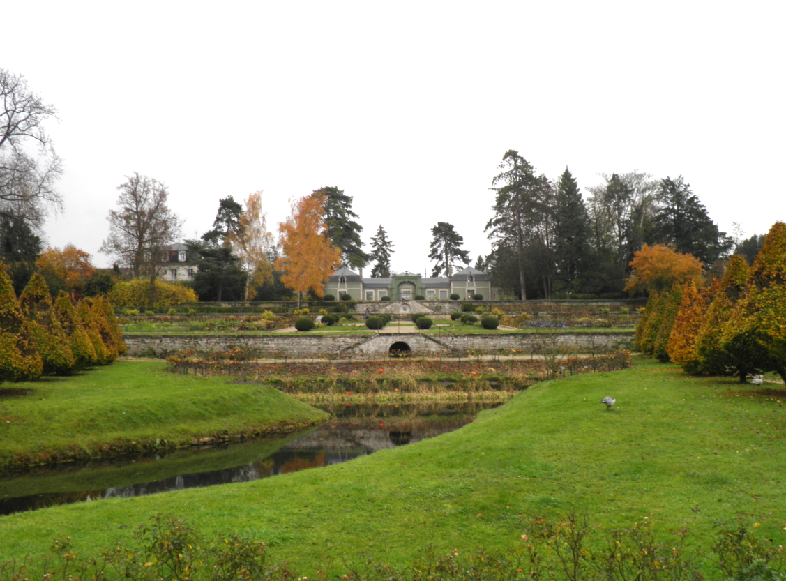 Potager des princes, park in Chantilly, general view. Oise. France. Autumn view.